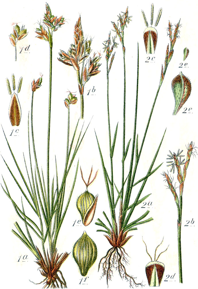 1. Carex halleriana Asso subsp. halleriana, syn. Carex gynobasis Chaix 2. Carex digitata L. Original Caption 1. Grund-Segge, Carex gynobasis 2. Finger-Segge, C. digitata